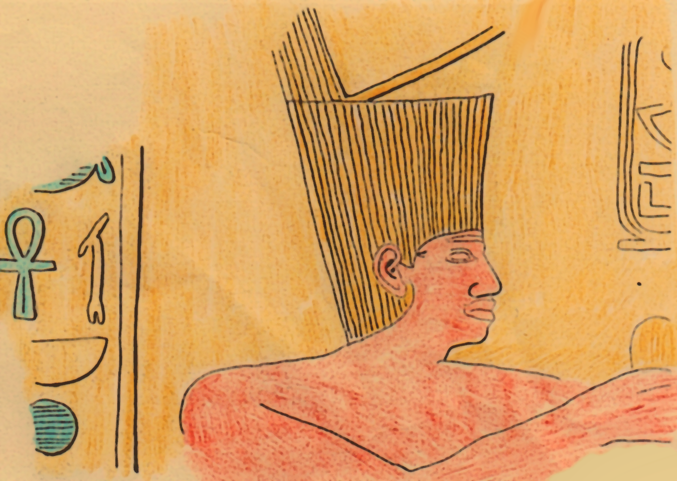 Colorized drawing of an ancient Egyptian relief on a block. The block (inv. no. BLM-I-18) was found in 2010/11 in the former lake of the temple of Mut at Tanis, and is now believed to depicting pharaoh Osorkon IV in an archaizing style. A cartouche is partially visible on the right, and contains Osorkon IV's throne name, Usermaa(t)re.[Ref: Dodson, Aidan (2014) "The Coming of the Kushites and the Identity of Osorkon IV" in Pischikova, Elena , ed. Thebes in the First Millennium BC, Cambridge Scholars publishing, pp. 6–12 ISBN: 978-1-4438-5404-7. ]